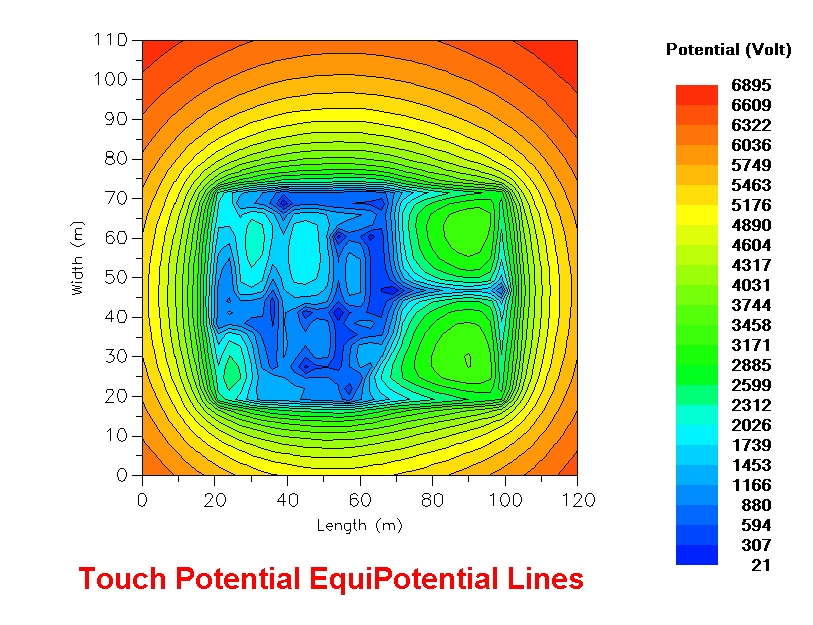 Computer calculation of voltage gradients due to ground fault current in a small electrical substation ground grid. Isopotential lines that are closer together represent higher gradients that produce a hazard to passers-by if they were to touch the substation structure during a ground fault. This diagram is for illustration only and does not represent any actual substation grounding system.